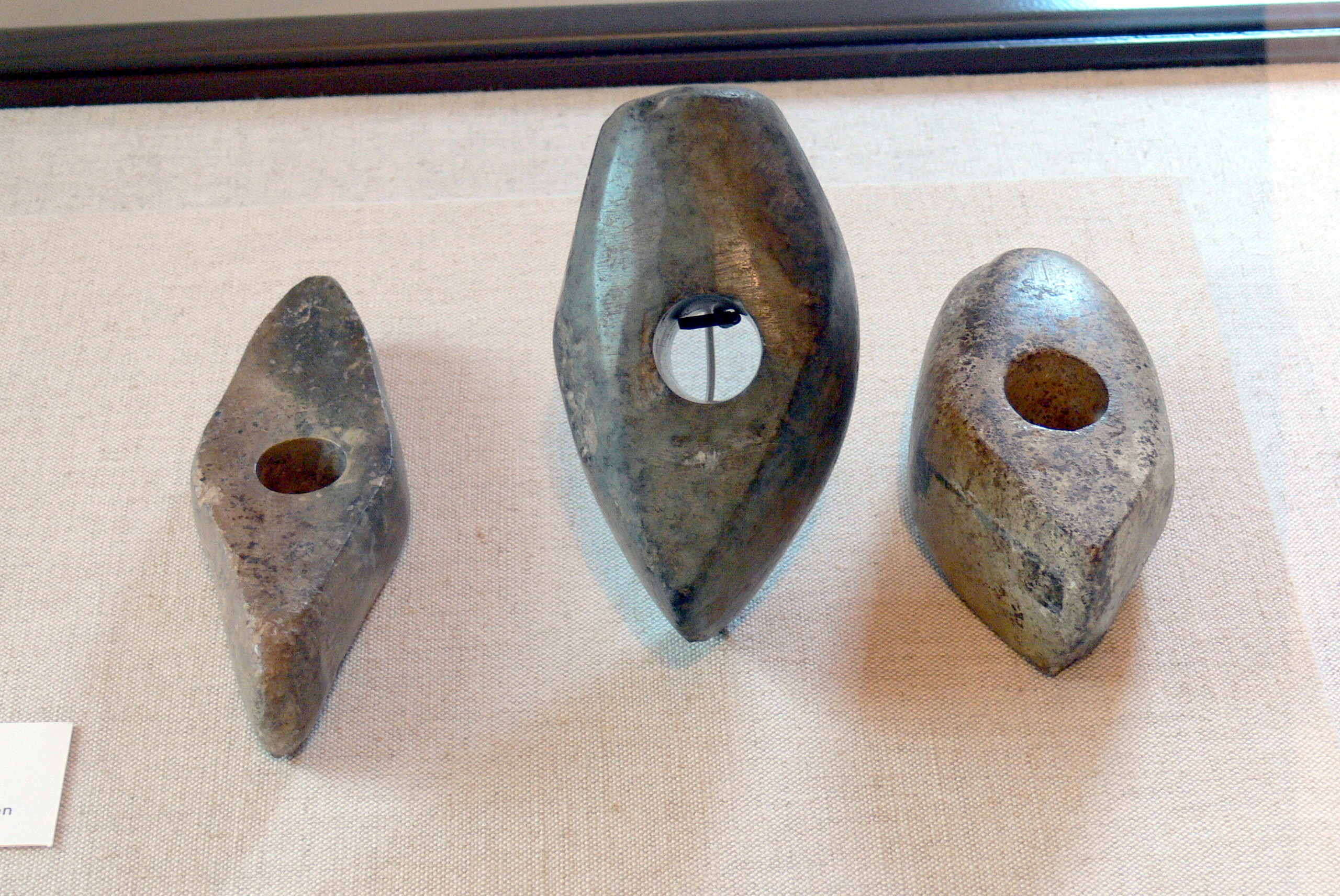 Roman museum Kastell Boiotro ( Passau ). Neolithic axes.